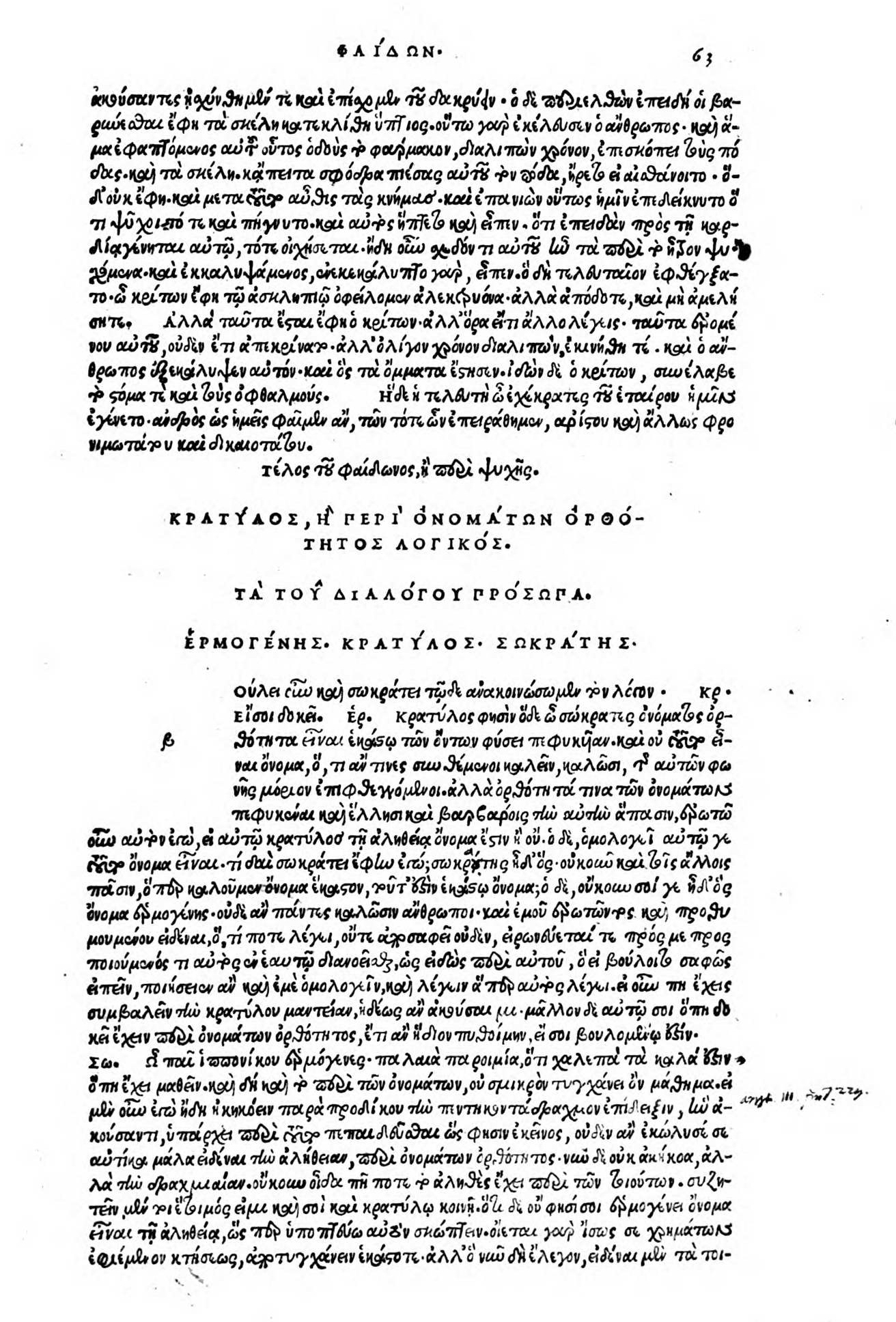 Kratylos beginning. Editio princeps, Venice 1513.